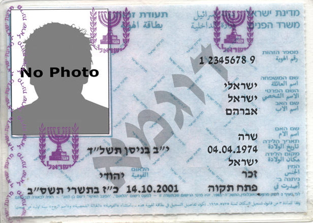 An example of Teudat-Zehut